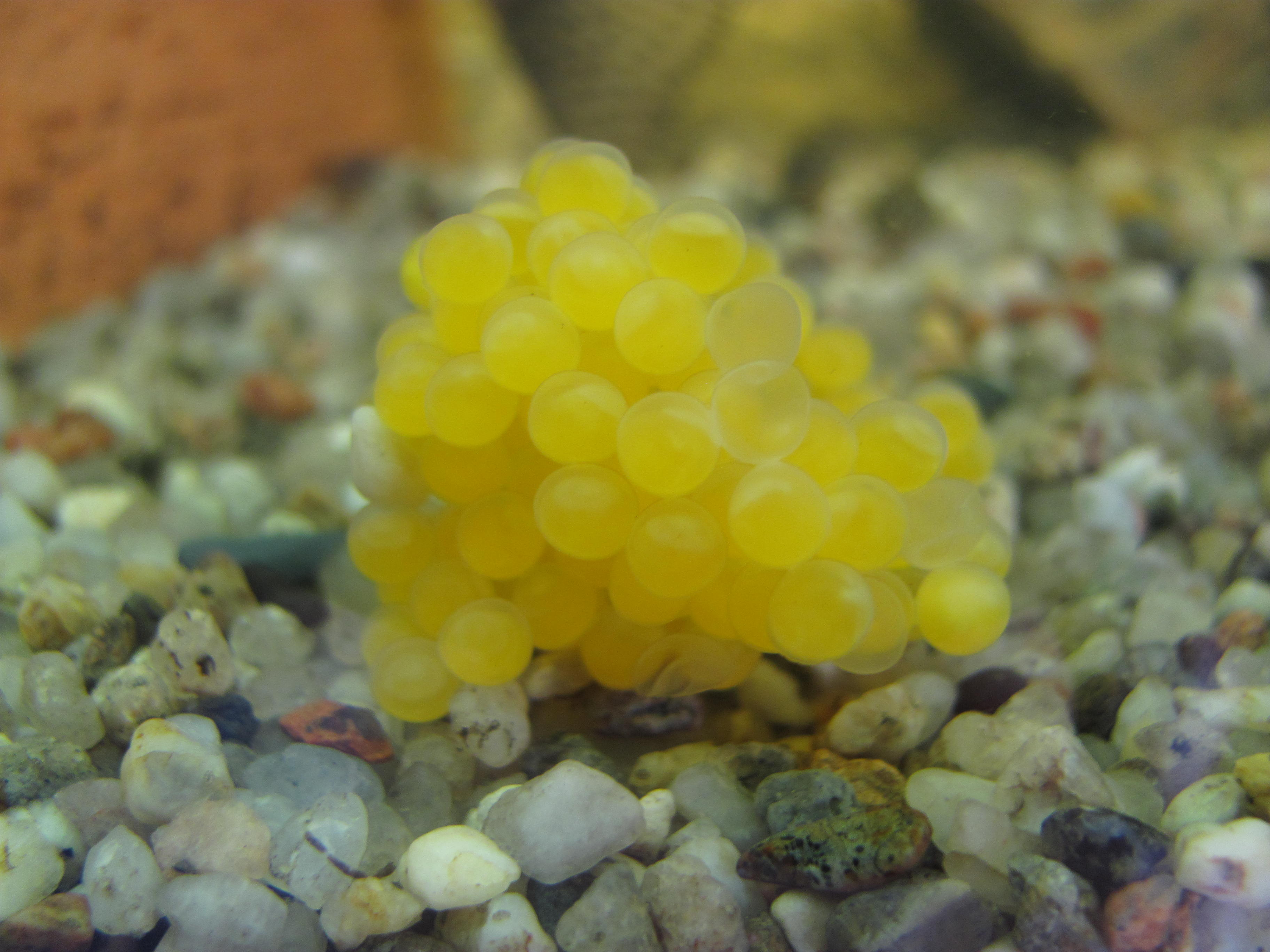 Eggs from a ancistrus dolichopterus.